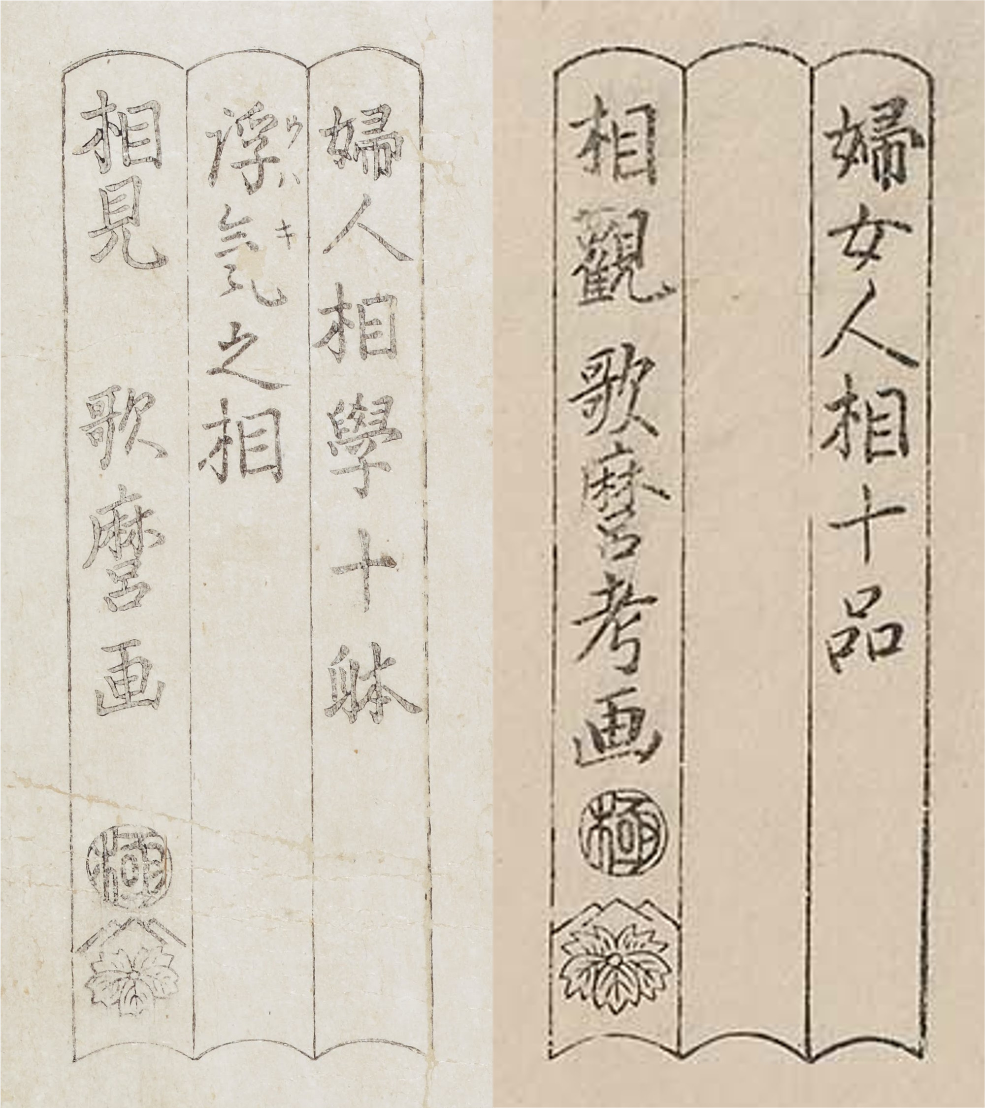 Cartouches from prints in the series Fujin Sōgaku Jittai and Fujo Ninsō Juppin for comparison